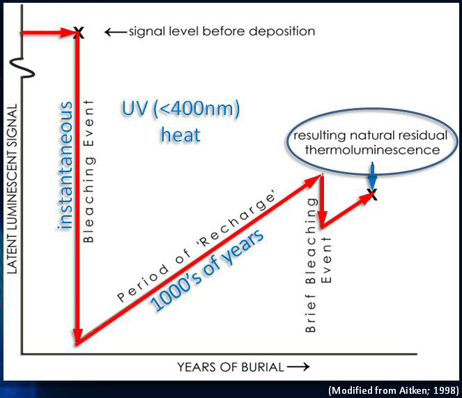 thermoluinescence explained